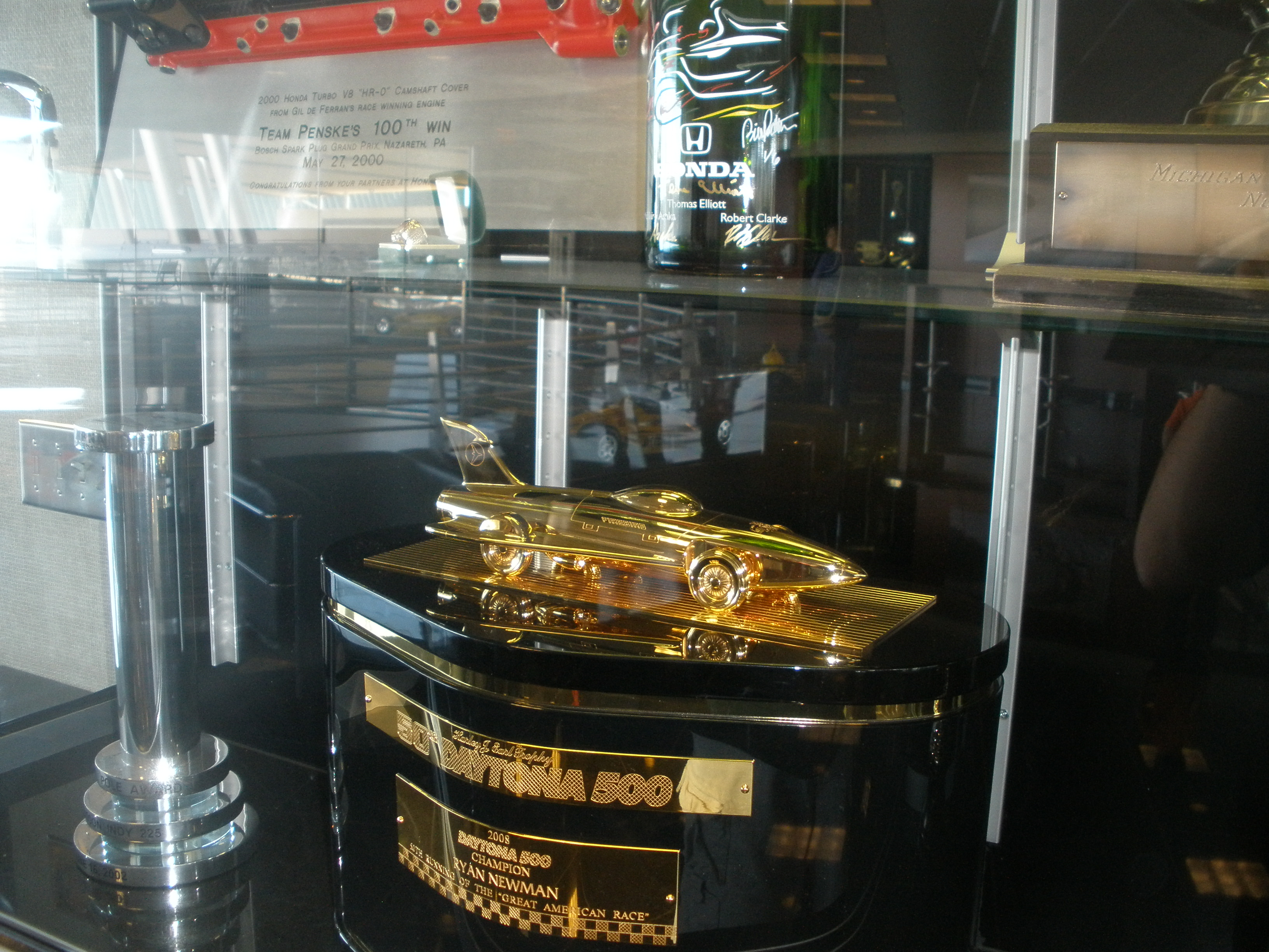 2008 Harley J. Earl Trophy for the Daytona 500. Displayed at the Penske Racing Museum in Scottsdale, Arizona